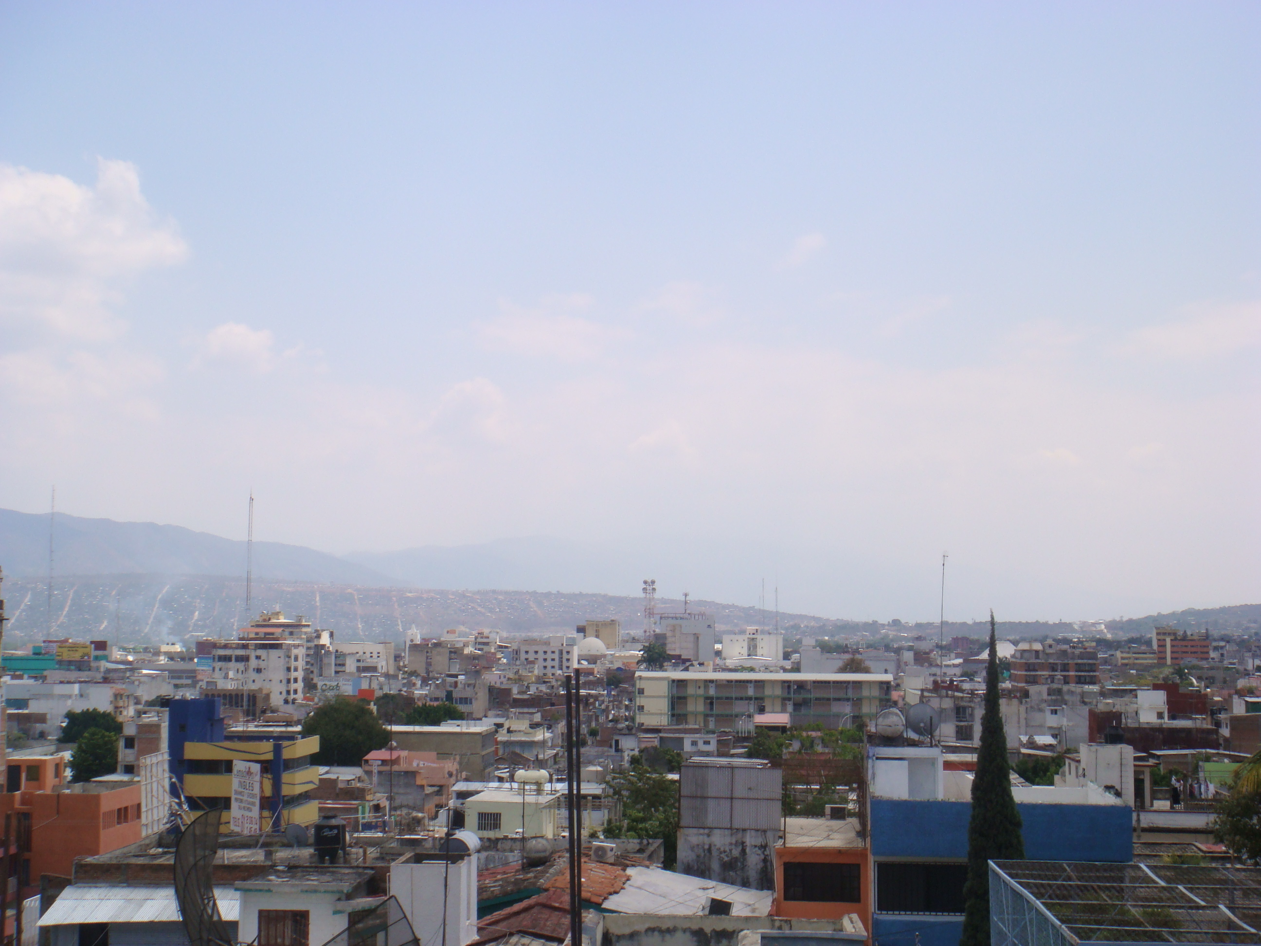 foto del centro de tuxtla gutierrez